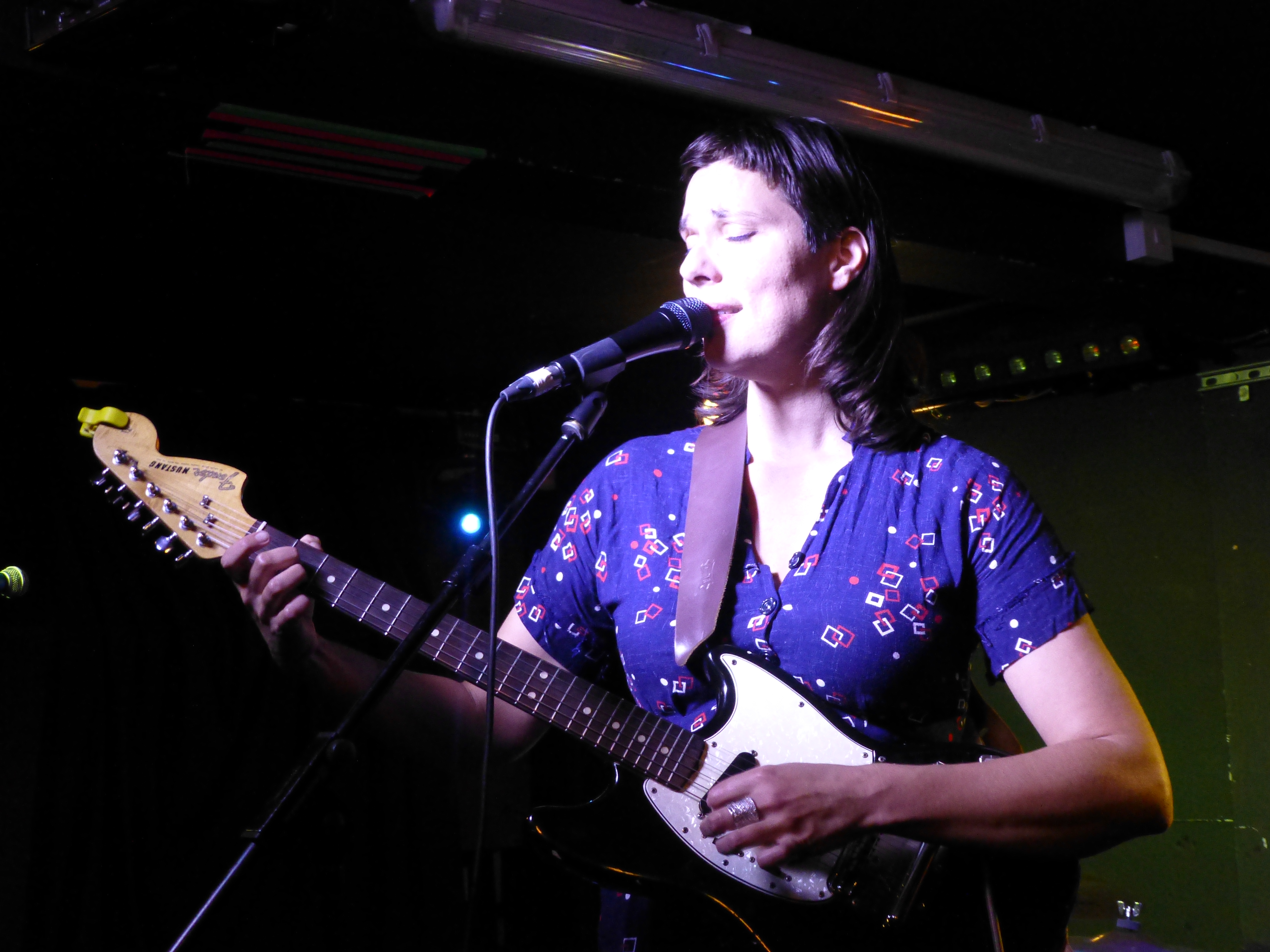 Laetitia Sadier @ the Sebright Arms, London 7-6-2013 - an excellent solo set....